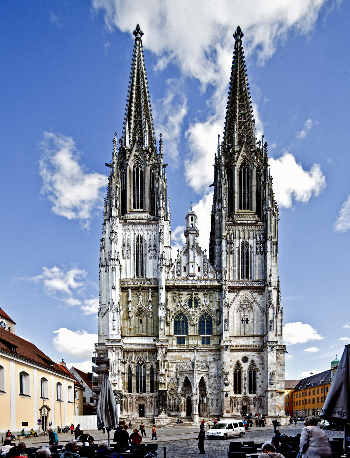 Regensburg Cathedral